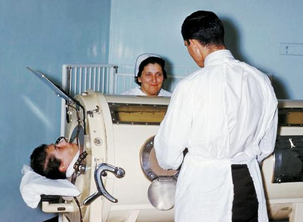 Hospital staff are examining a patient in a tank respirator, iron lung, during the Rhode Island polio epidemic. The iron lung encased the thoracic cavity externally in an air-tight chamber. The chamber was used to create a negative pressure around the thoracic cavity, thereby causing air to rush into the lungs to equalize intrapulmonary pressure.